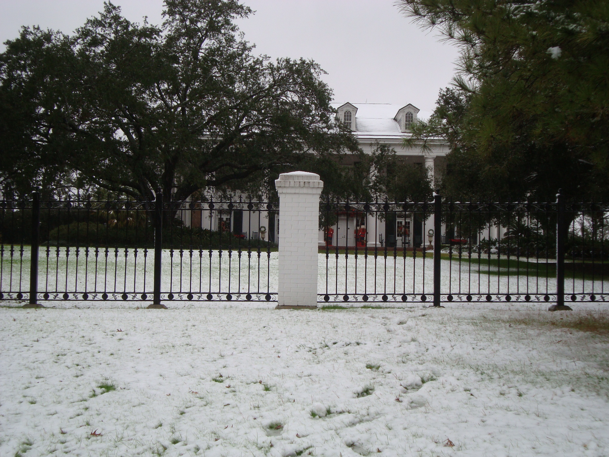 the governors mansion on the day it snowed in south Louisiana (very rare)